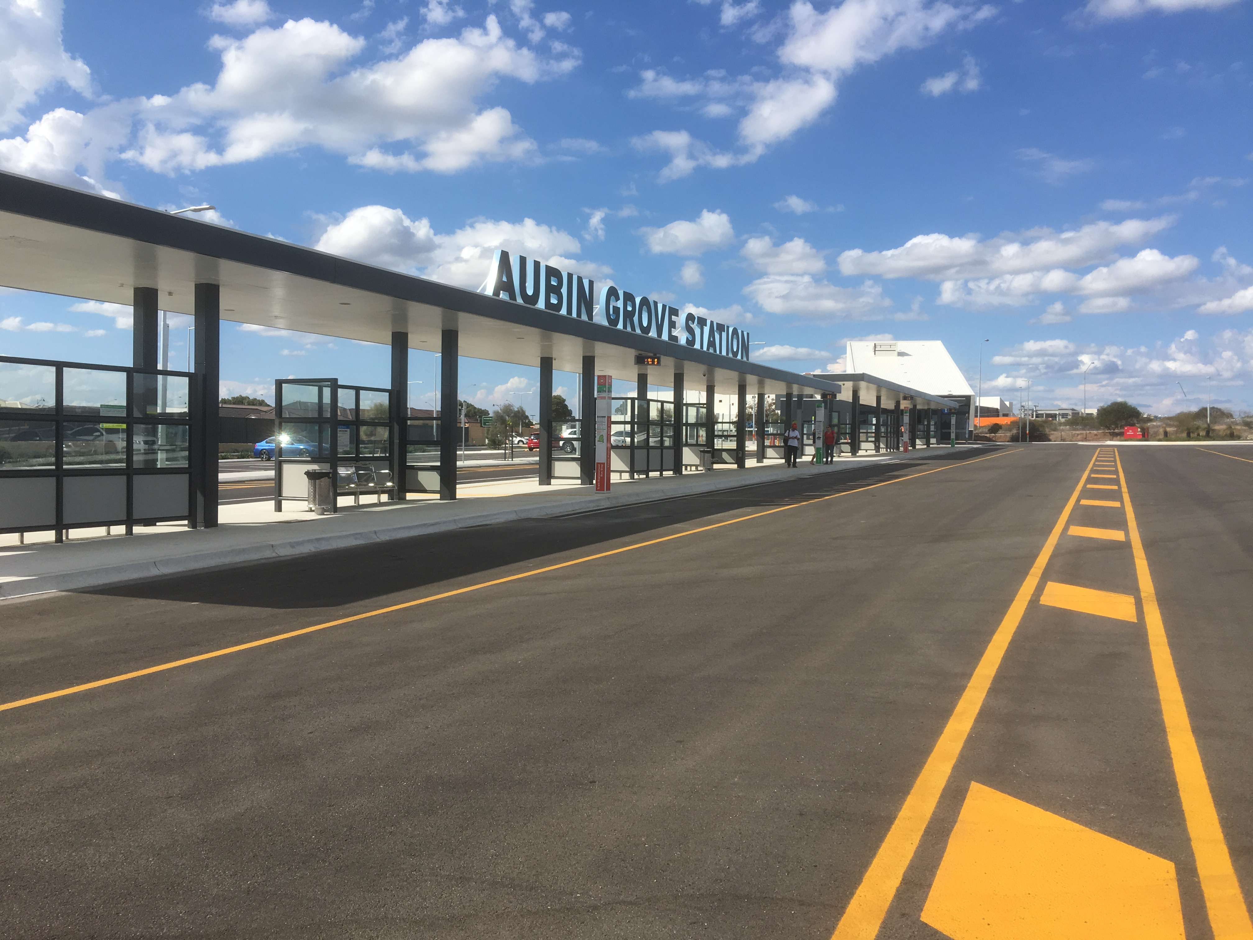 The bus stands of Aubin Grove Station.